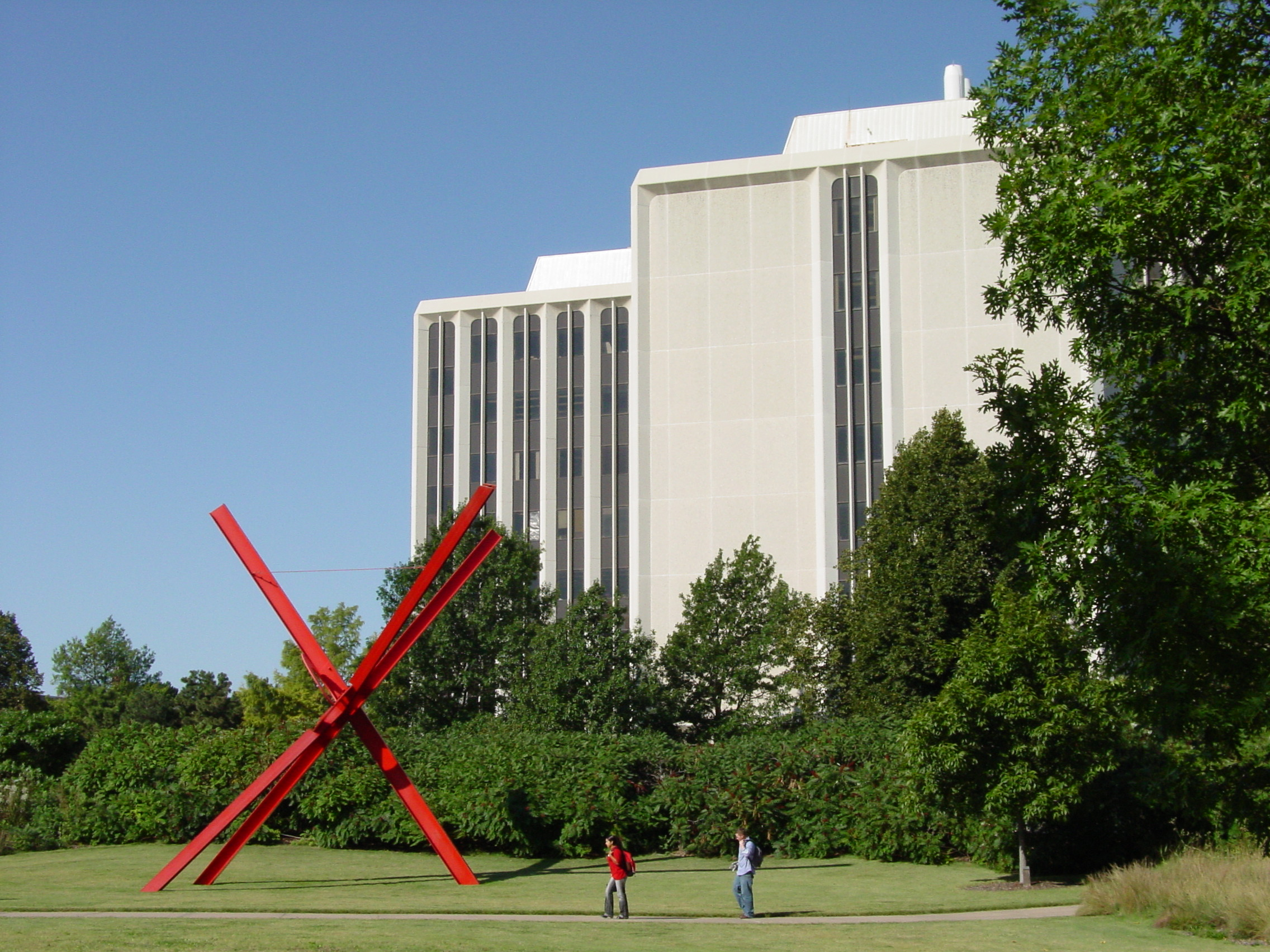 A view of Hamilton Hall, one of the largest chemistry buildings in the country. Author: Mikerueben; originally uploaded as File:USA ne lincoln unl fergusionhall.JPG